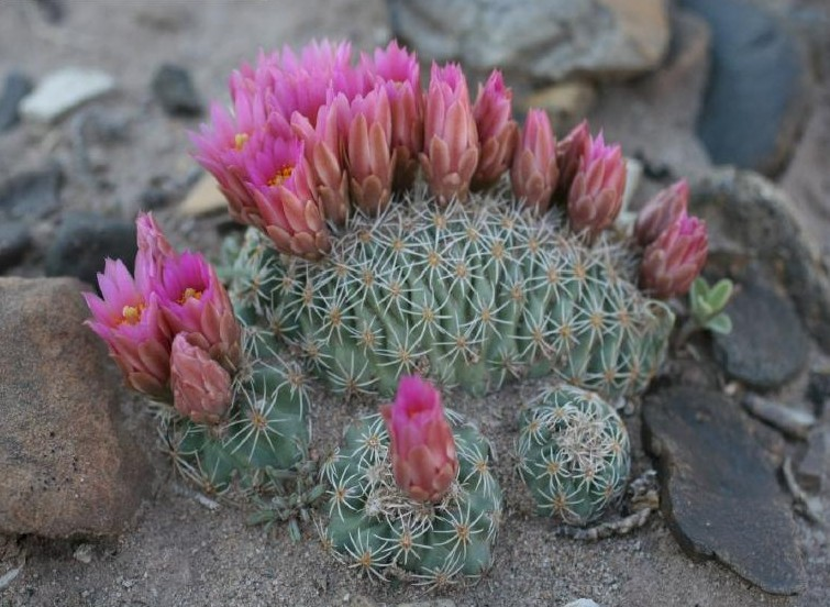 Sclerocactus glaucus (syn. Sclerocactus brevispinus) from USFWS document